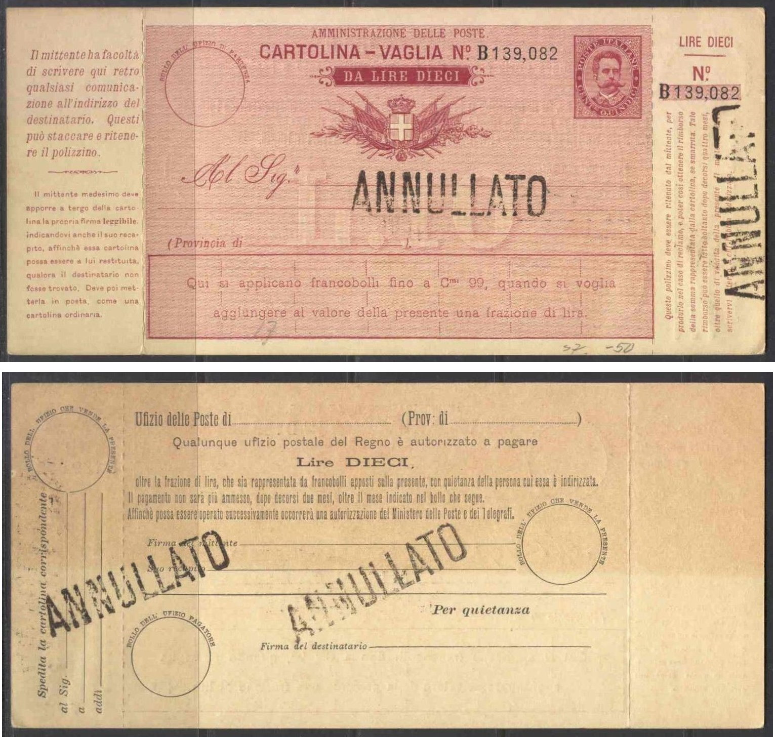 Specimen money order of Italy, front and back.